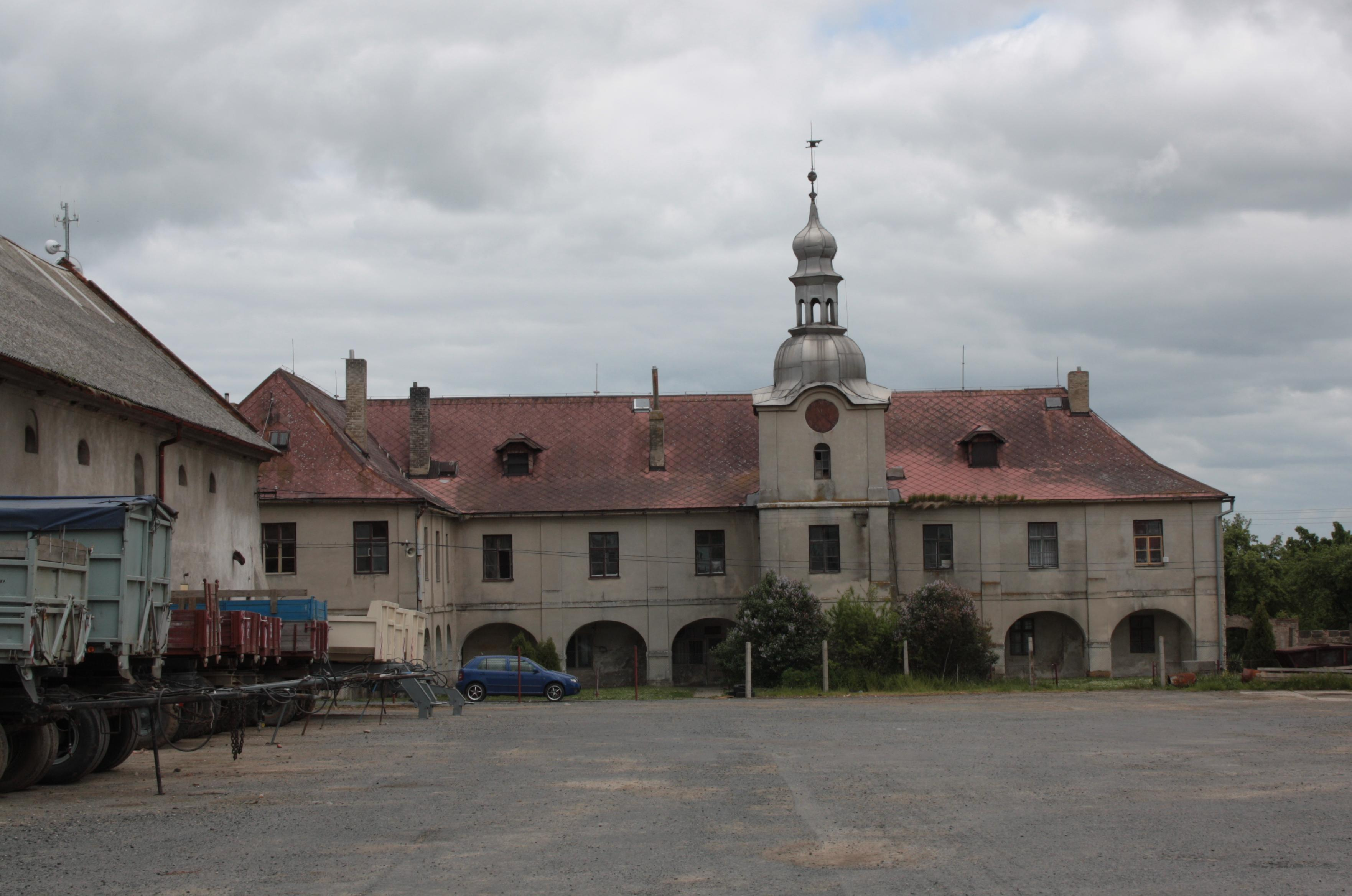 Stránka, Mělník District, Central Bohemian Region, Czech Republic This photograph was taken with a DSLR from WMCZ's Camera grant. Project: Fotíme Česko